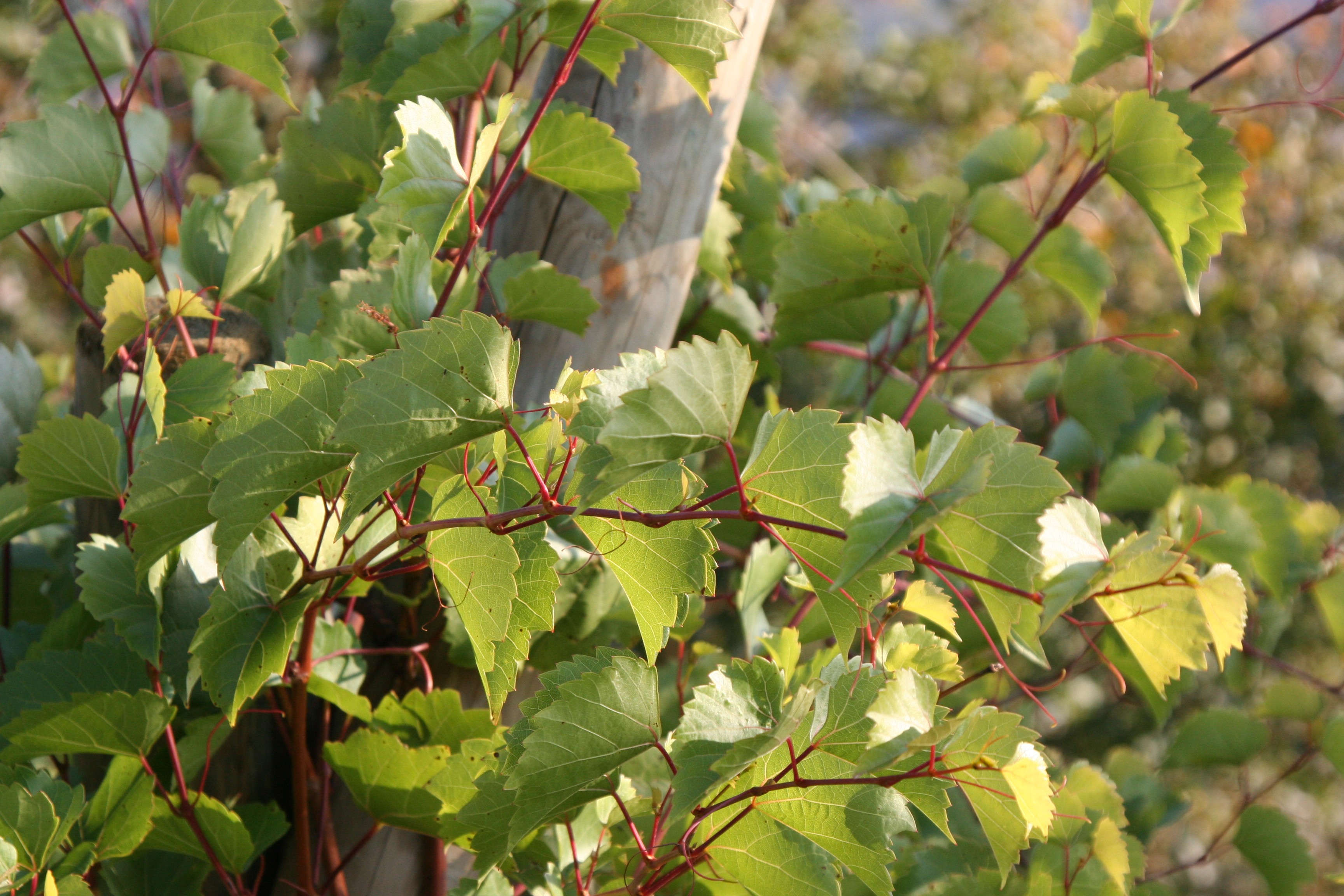 Leaves of Vitis rupestris, photographed at the viticulture trail on the Schemelsberg hill in Weinsberg